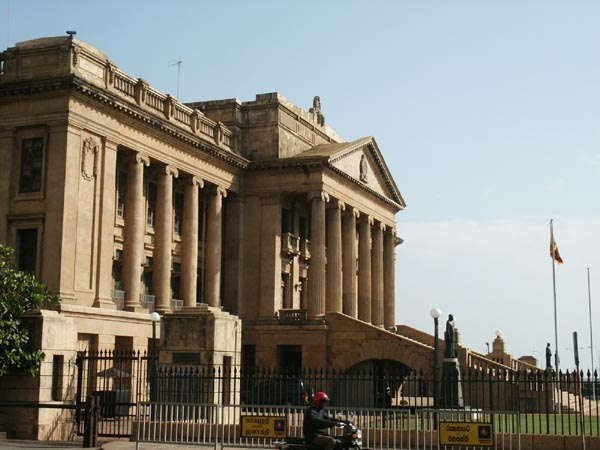 Created by me